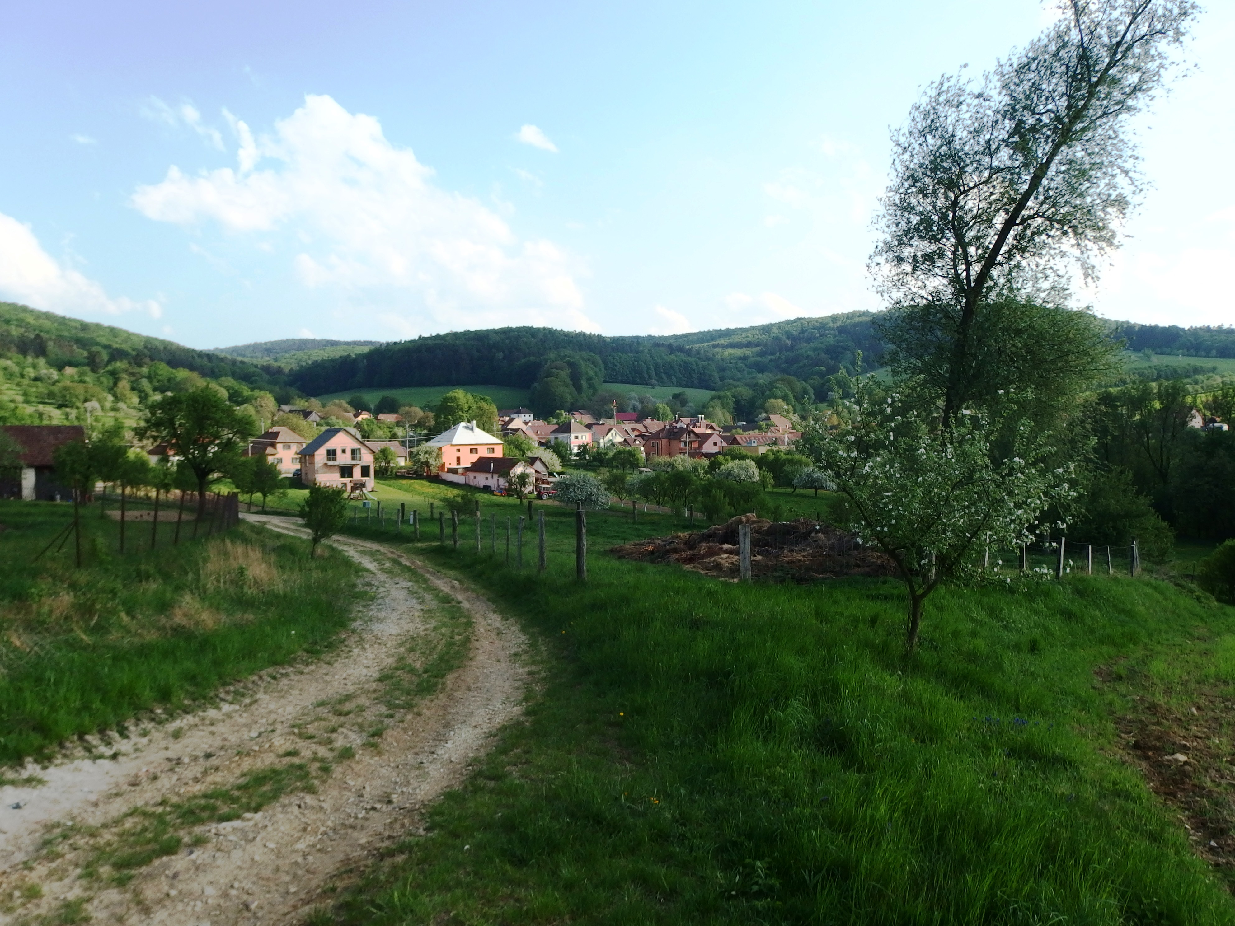 Hostětín, Uherské Hradiště District, Czech Republic.